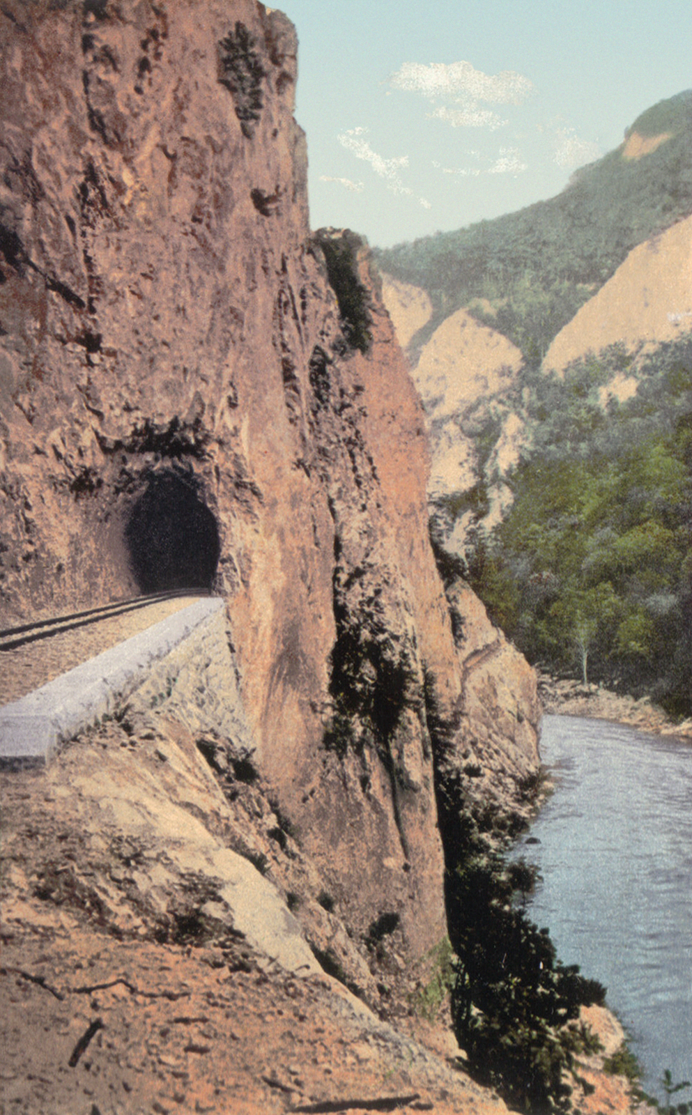 The western portal of the tunnel No. 57 (250.60 meters in length) located in the gorge of the Drina River east of Ljučevo at km 89.75 of the Bosnian Eastern Railway as seen in this downstream view towards Međeđa